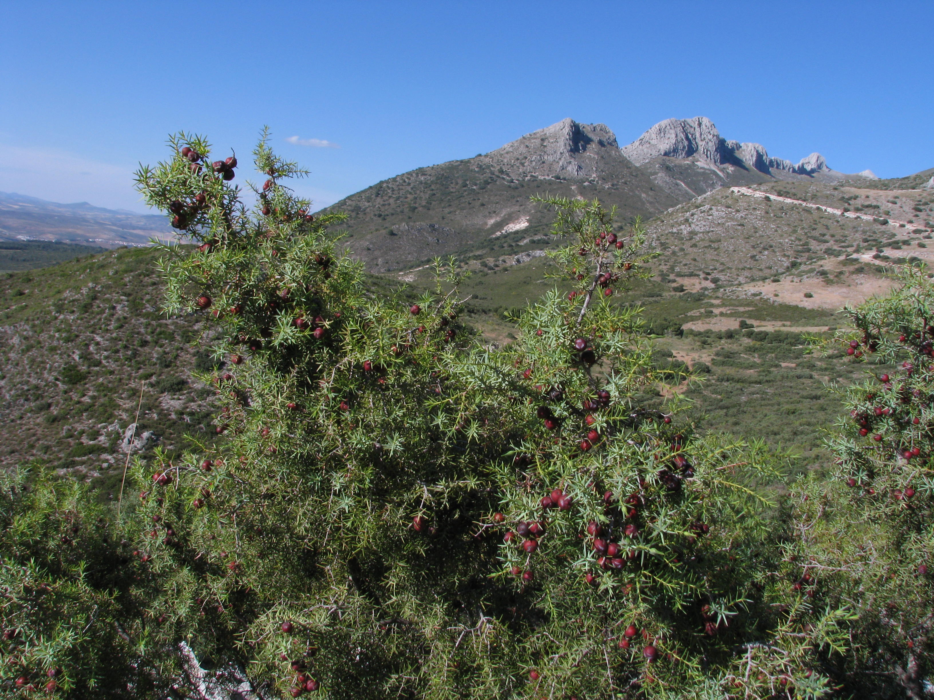 Prickly juniper (Juniperus oxycedrus) with berries in Sierra Arana, Deifontes, Granada, Spain